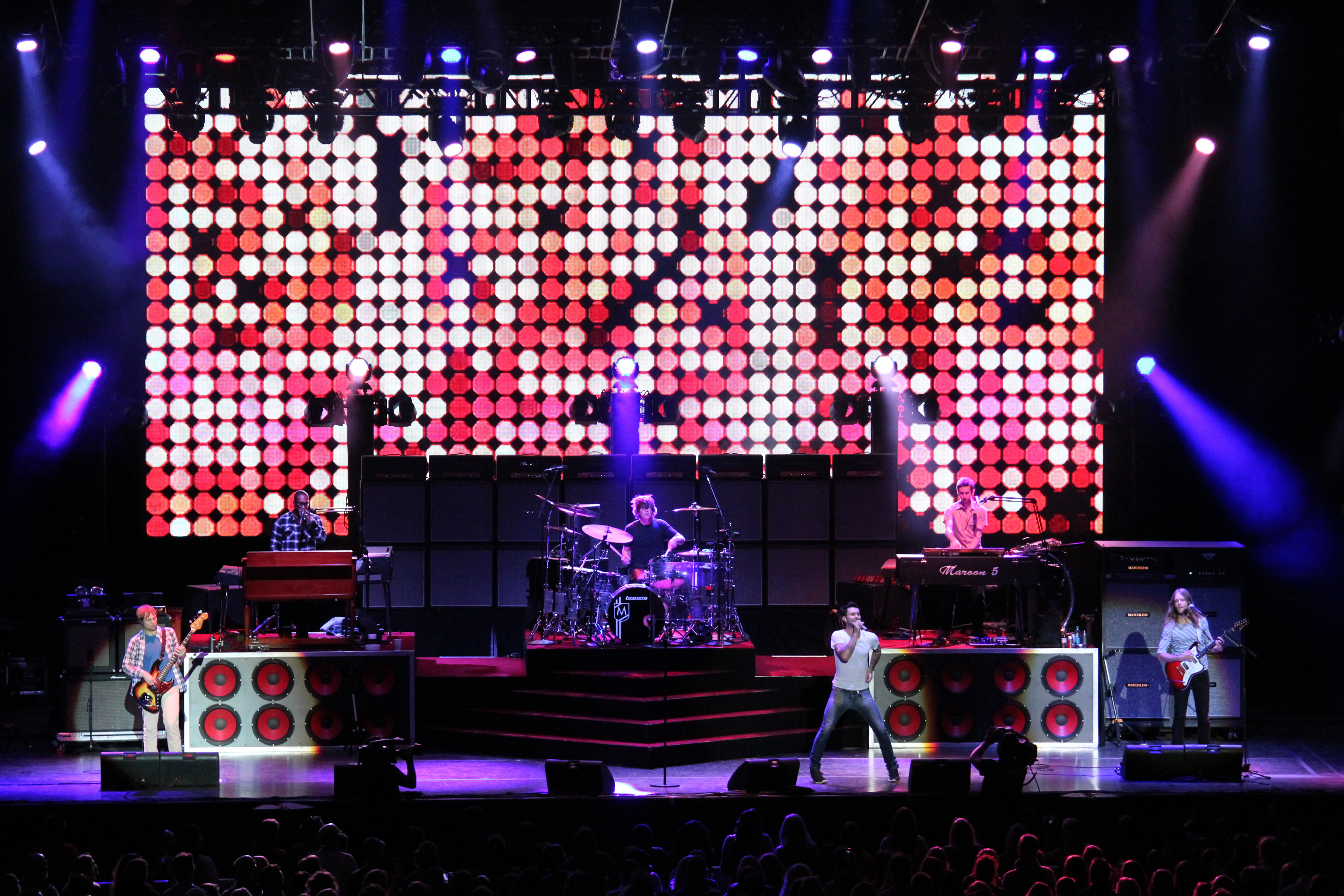 Maroon 5 perfoming at the Bridgestone Arena, Nashville, on the Overexposed Tour.